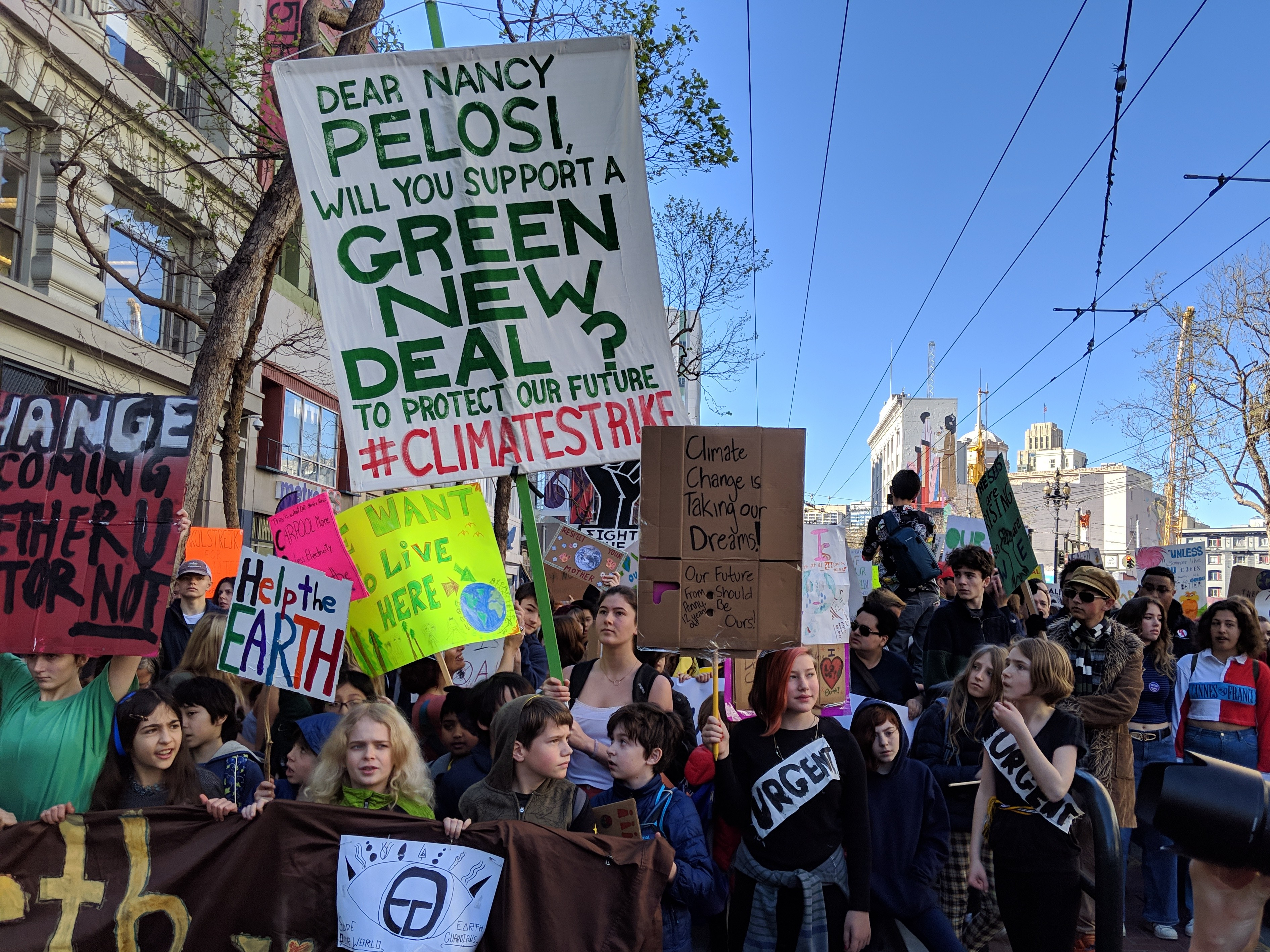 Protesters march with signs along Market Street during the San Francisco Youth Climate Strike. March 15, 2019